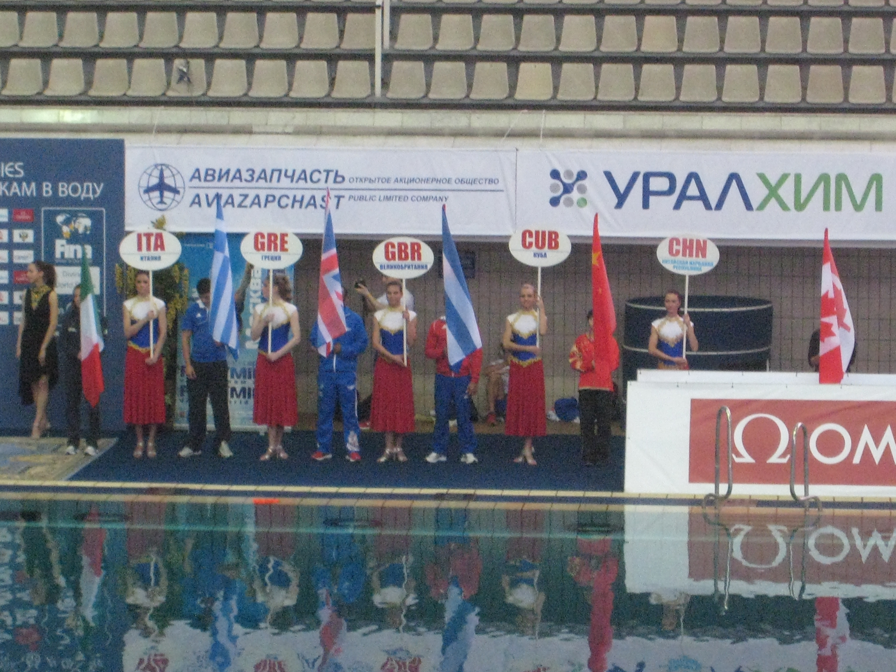 First day of the FINA/Midea Diving World Series 2013 - Moscow (RUS)